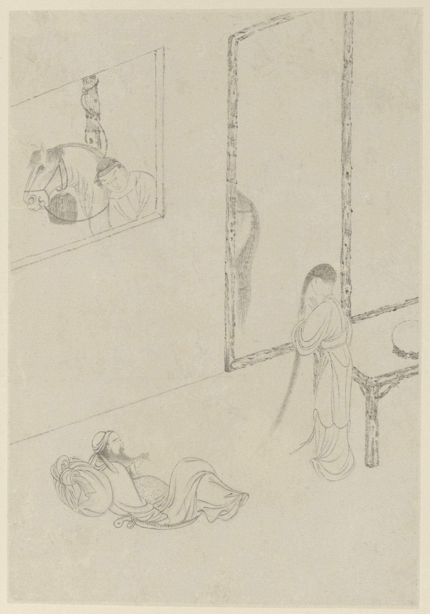 This depicts Hongfunü (紅拂女) combing her hair.